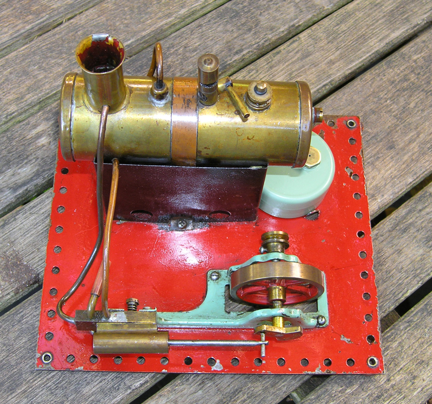 A shot taken outdoors on a wooden table showing the Mamod SE2 of 1949, complete with flat base.